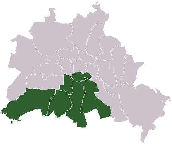 Berlin, Germany – after WWII, American zone